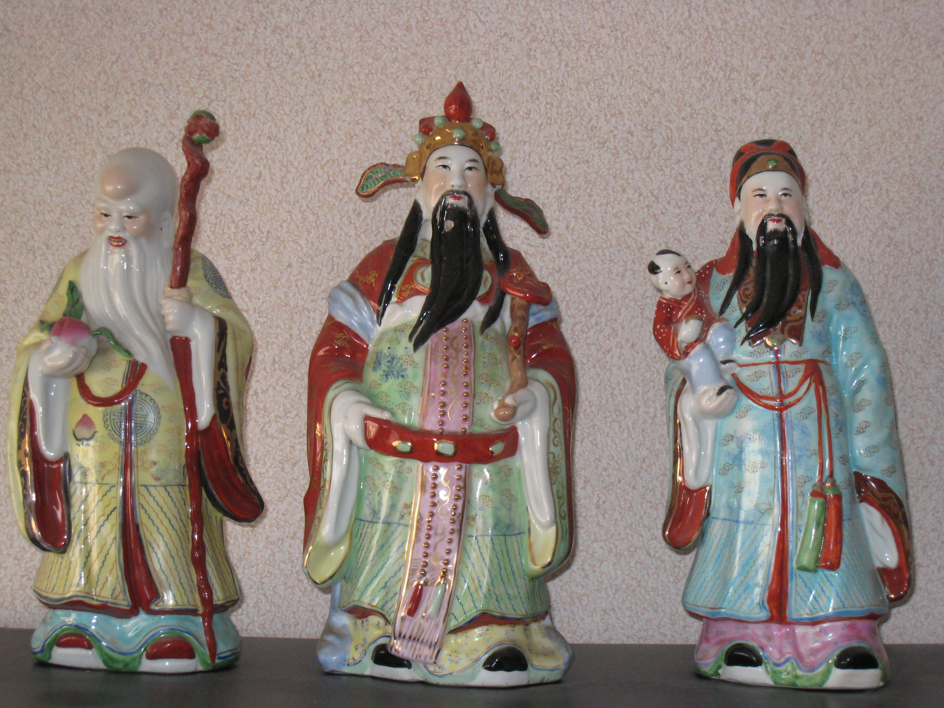 china statues of Fu, Lu and Shou